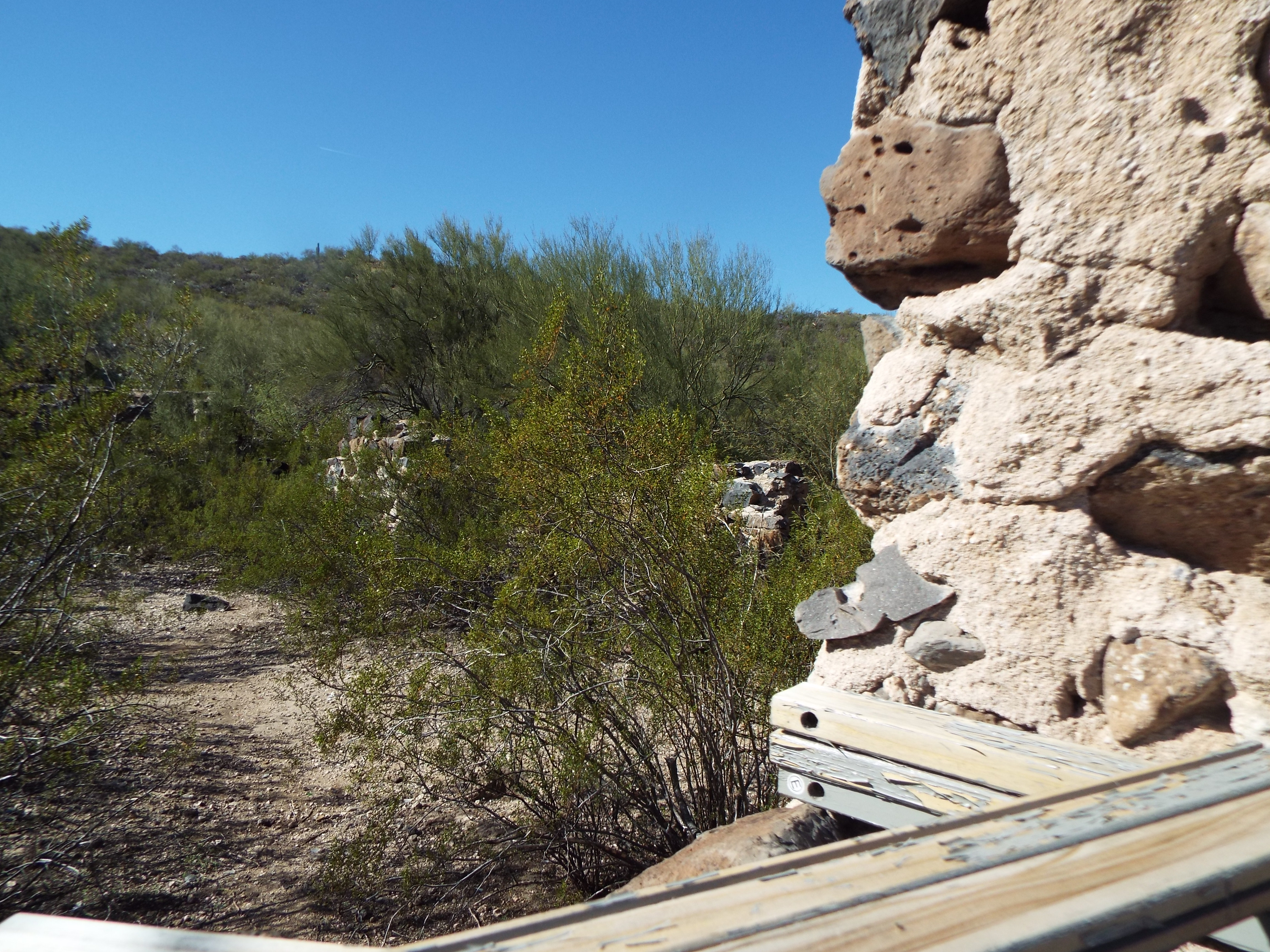 Historic Solomon Warner Mill.-1874 in Tucson, Arizona